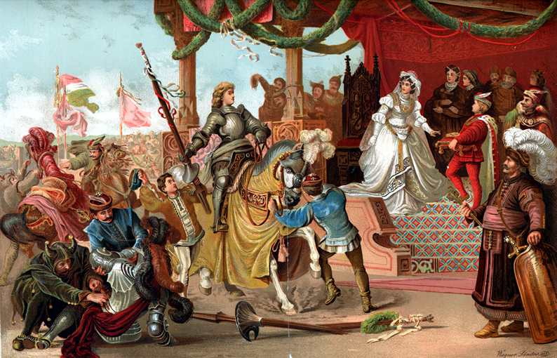 King Matthias beat Holubar